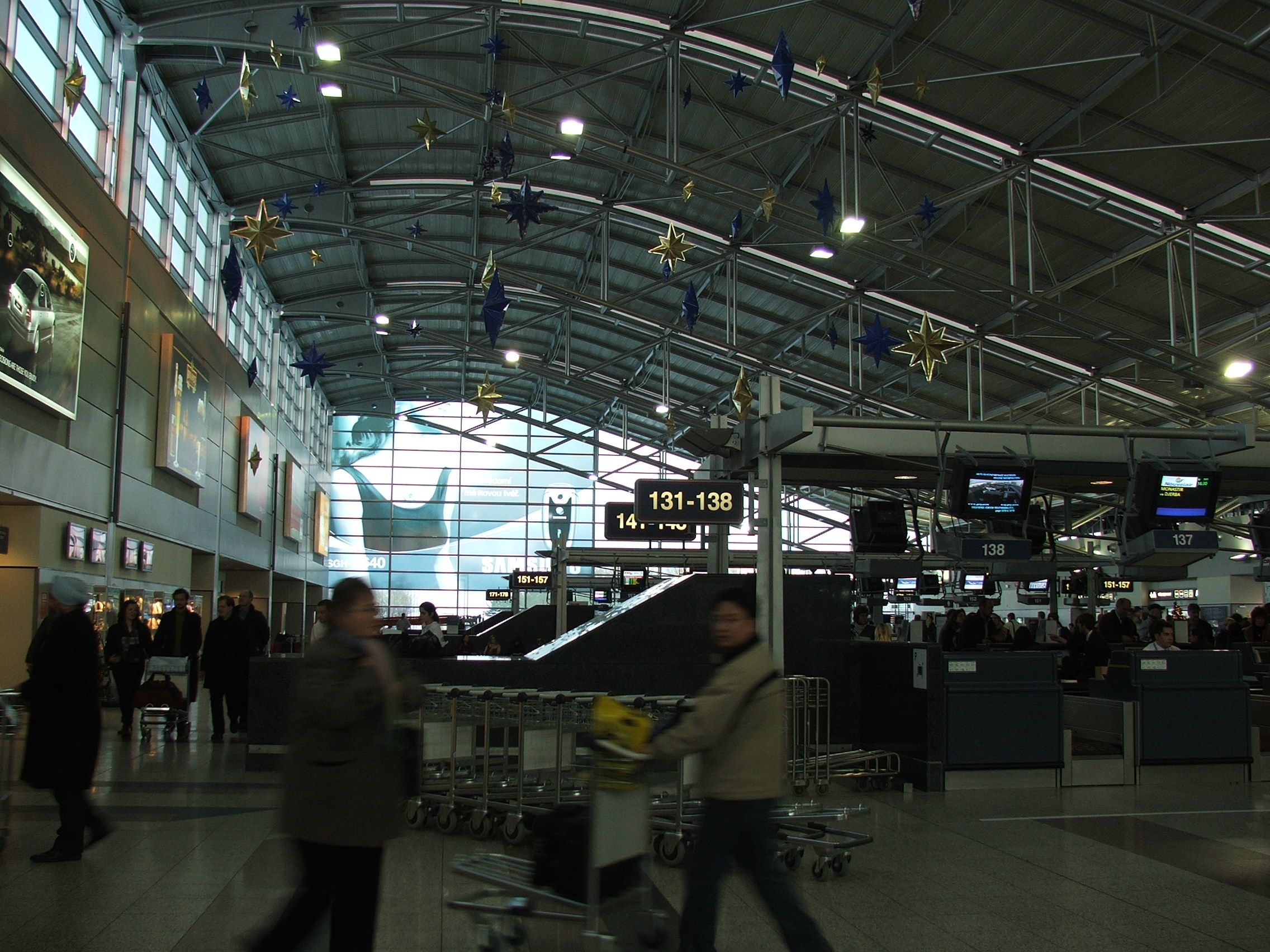 Terminal North 1, Departure Hall, Prague Intl. Airport Ruzyně, Czechia.